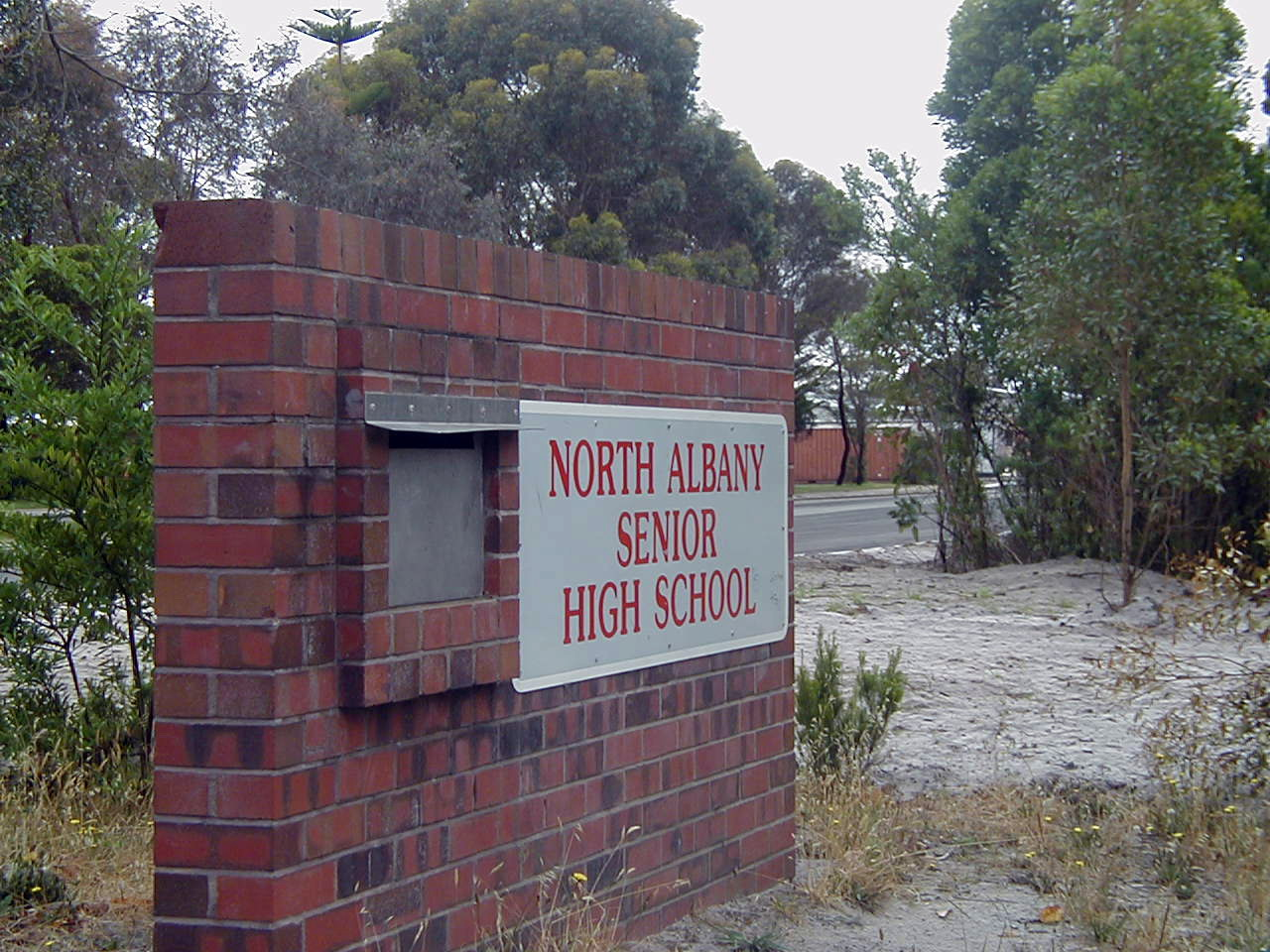 North Albany Senior High School - Albany, Western Australia.